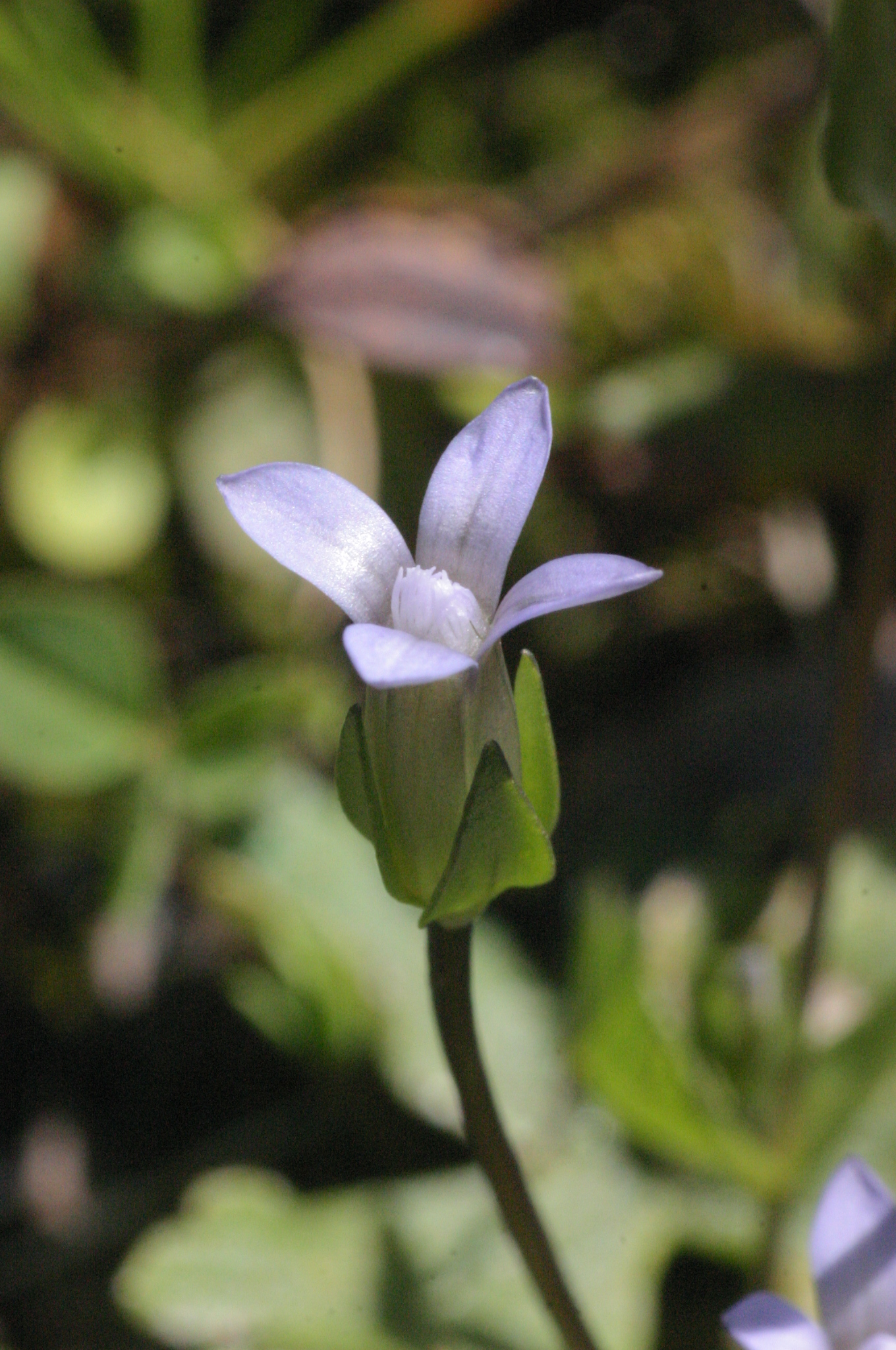 Comastoma tenellum (Syn. Gentianella tenella)